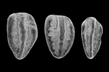 8. Polygnathus sp., Pa element, upper view, reworked Late Devonian to Early Mississippian morphotype, X140. 10. Polygnathus sp., Pa element, upper view, reworked Late Devonian to Early Mississippian morphotype, 93RS–79a, X140. 11. Polygnathus sp., Pa element, upper view, reworked Late Devonian to Early Mississippian morphotype, 93RS–67, X140.